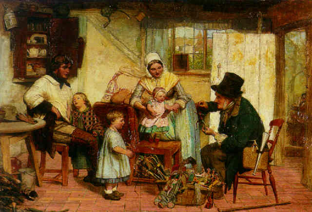 True photograph of David Henry Friston's oil on canvas, The Toy Seller (20 x 30", or 50.8 x 76.2 cm), sold as Lot 3278 at Butterfield's European Paintings sale on November 18, 1999.